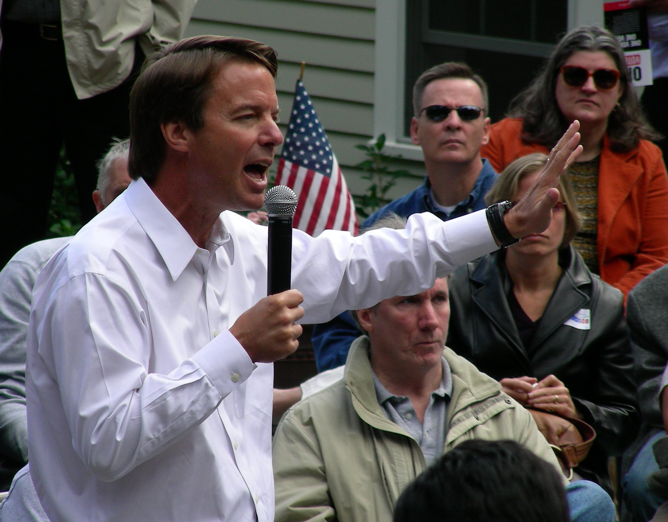 John Edwards in Dover, New Hampshire